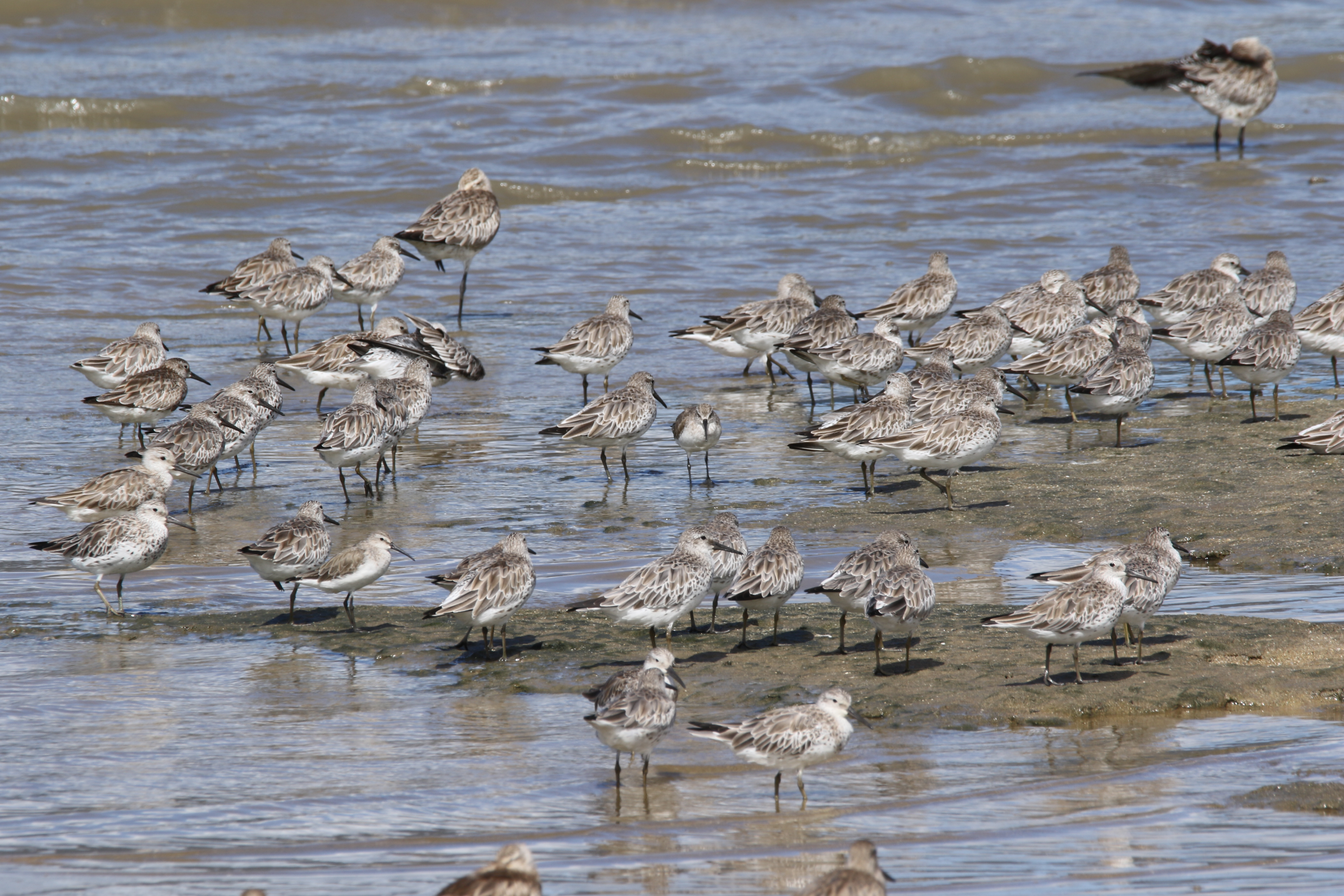 Calidris tenuirostris Horsfield, 1821, Great Knot, Calidris ferruginea (Pontoppidan, 1763), Curlew Sandpiper, and Limosa lapponica (Linnaeus, 1758), Bar-tailed Godwit, Cairns Esplanade, Cairns, Queensland, 18 January 2016